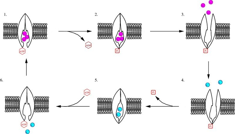 Na-K pump cycle